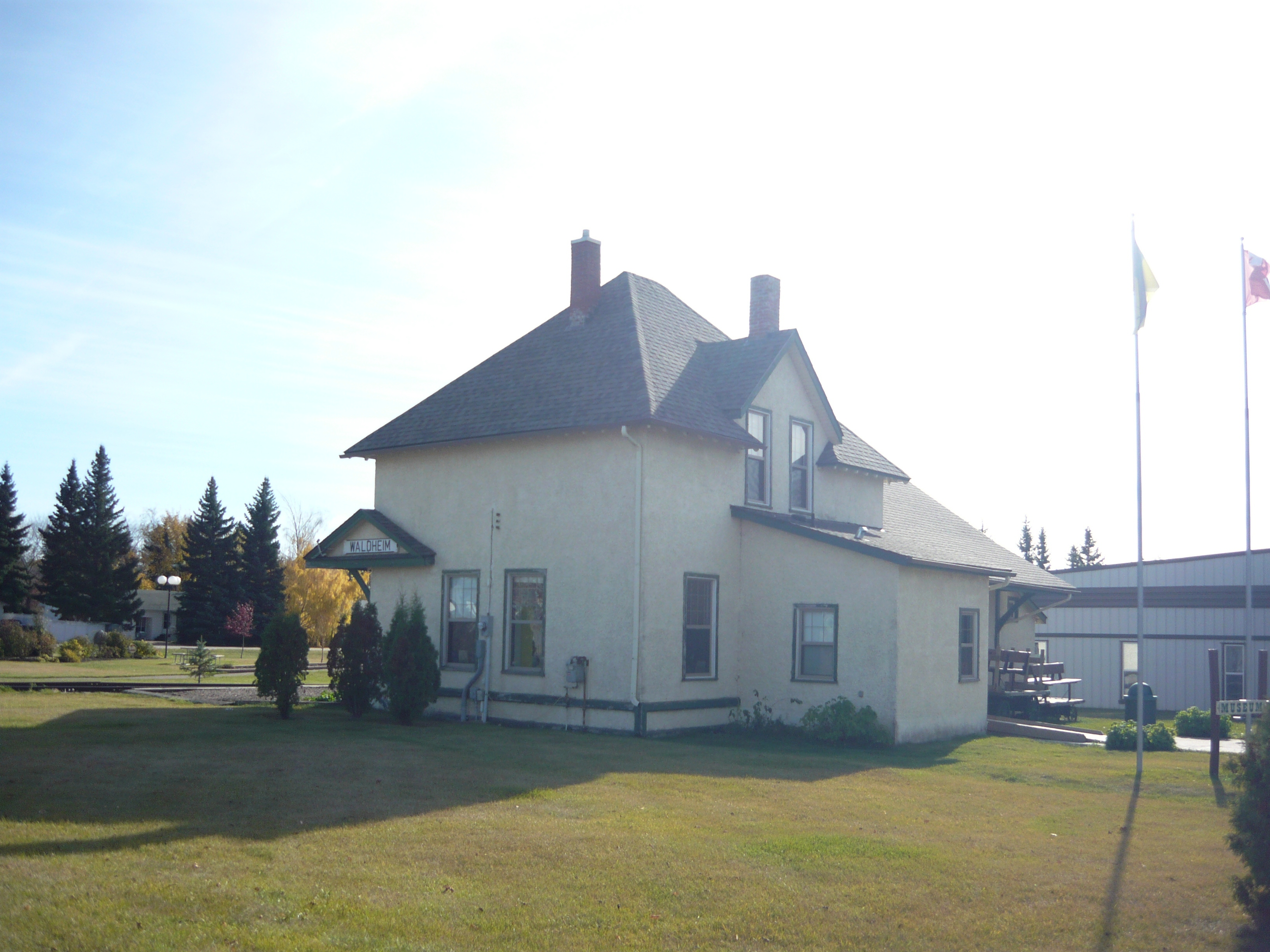 Waldheim Museum and Library in former Canadian National Railway station, built 1909, Main Street and Central Avenue, Waldheim, Saskatchewan, Canada.